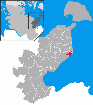 This map shows the area of the Gemeinde (municipality) Kellenhusen (Ostsee) in the Kreis (district) Ostholstein, Schleswig-Holstein, Germany.